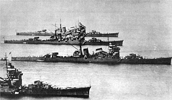 Four ships Sentai 4 (Myōkō, Nachi, Haguro, Ashigara) in Beppu, 1930.